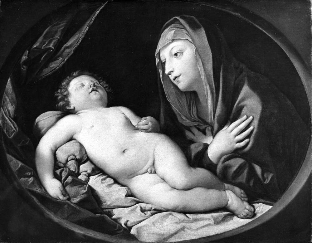 'Maria, bent over the sleeping Christ child', by Guido Reni. This painting was part of the collections of the Gemäldegalerie Alte Meister in Dresden and and it has been missing since the end of World War II, in 1945. - Dimensions: 70 x 89 cm - Oil on canvas